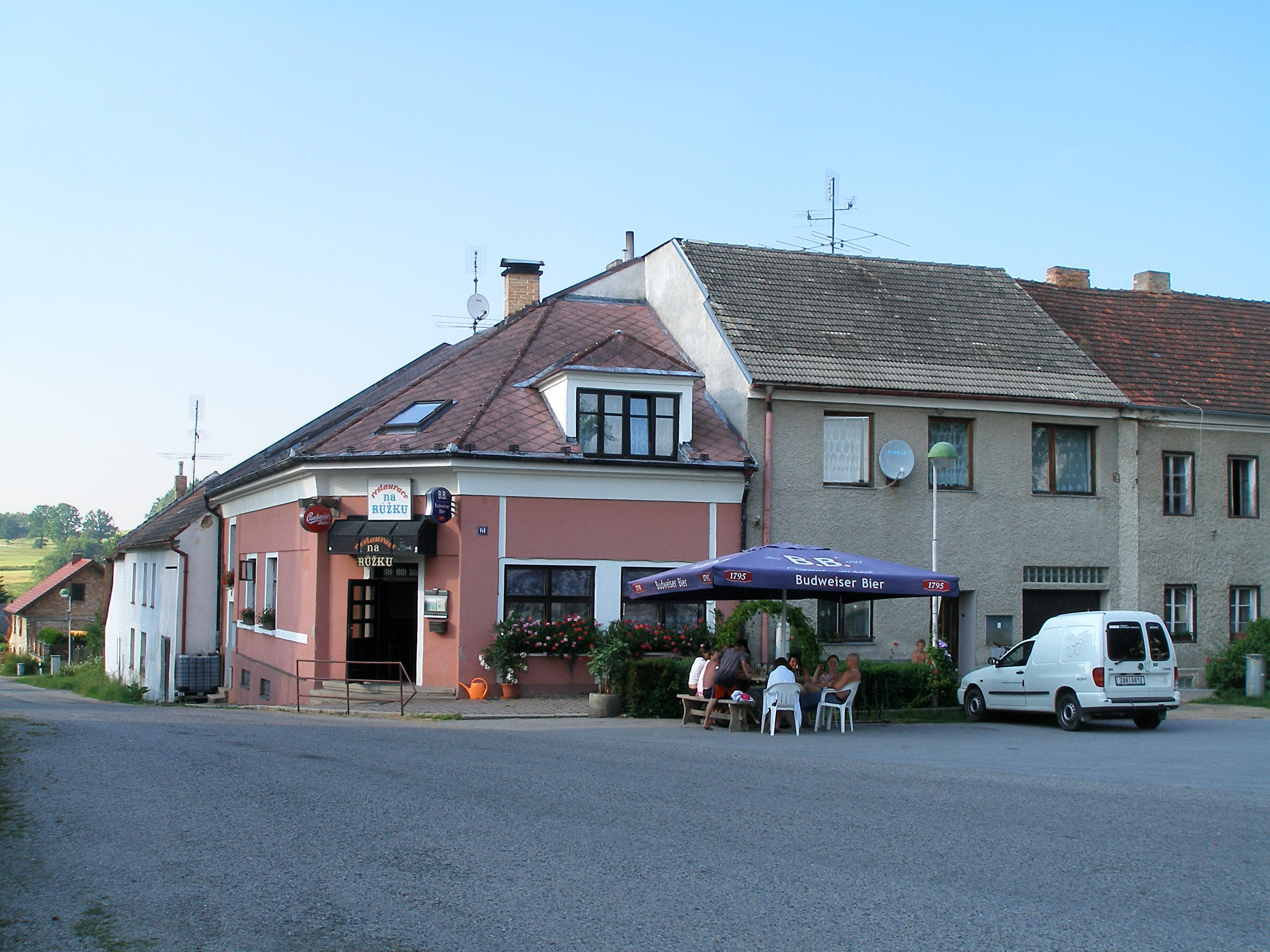 Horní Dvořiště - the northern side of the square